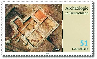 Stamp from Deutsche Post AG from 2002, Archeology in Germany